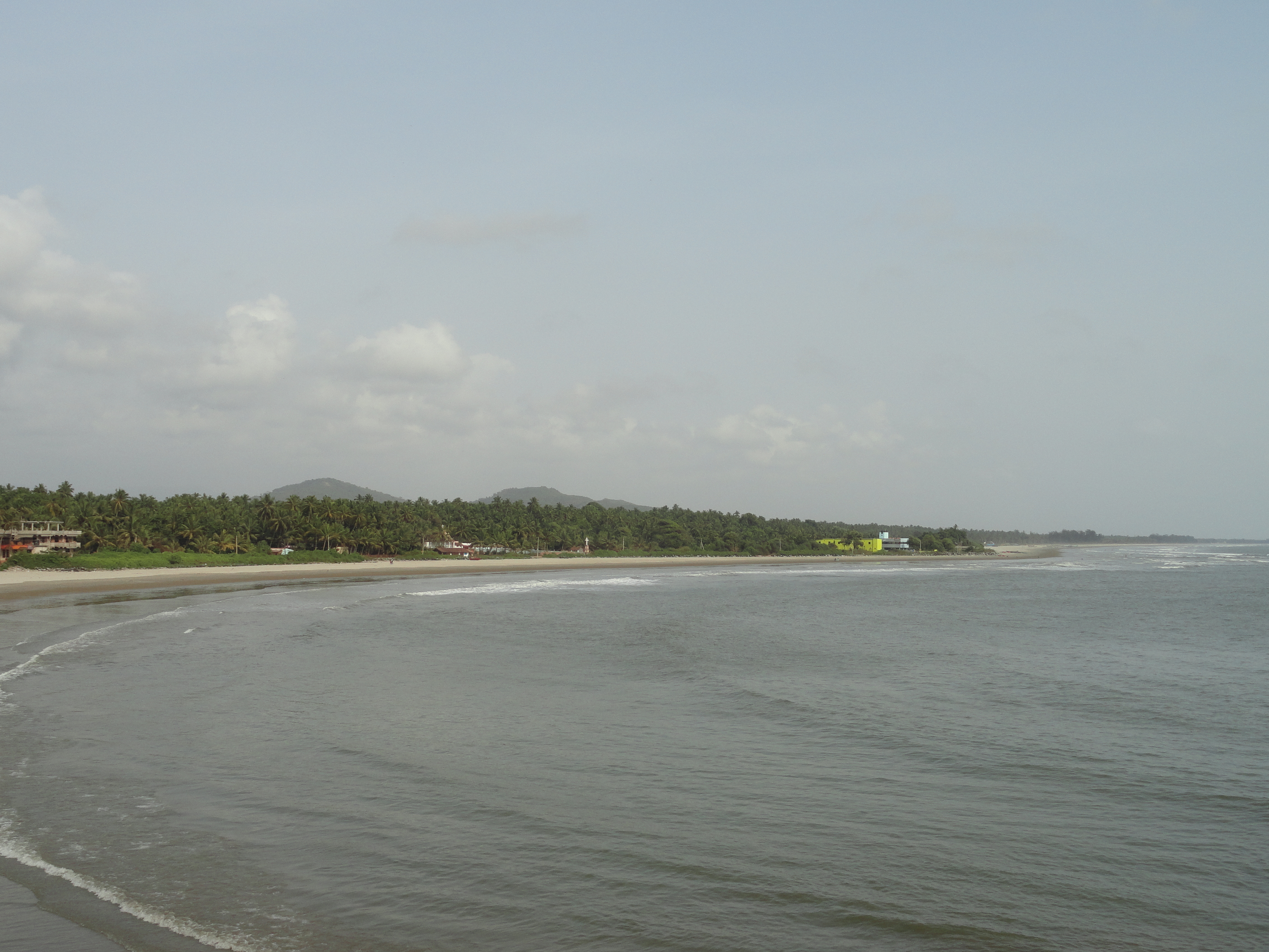 Sea coast, Karnataka.